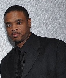 DJ Eddie F at an event in 2011